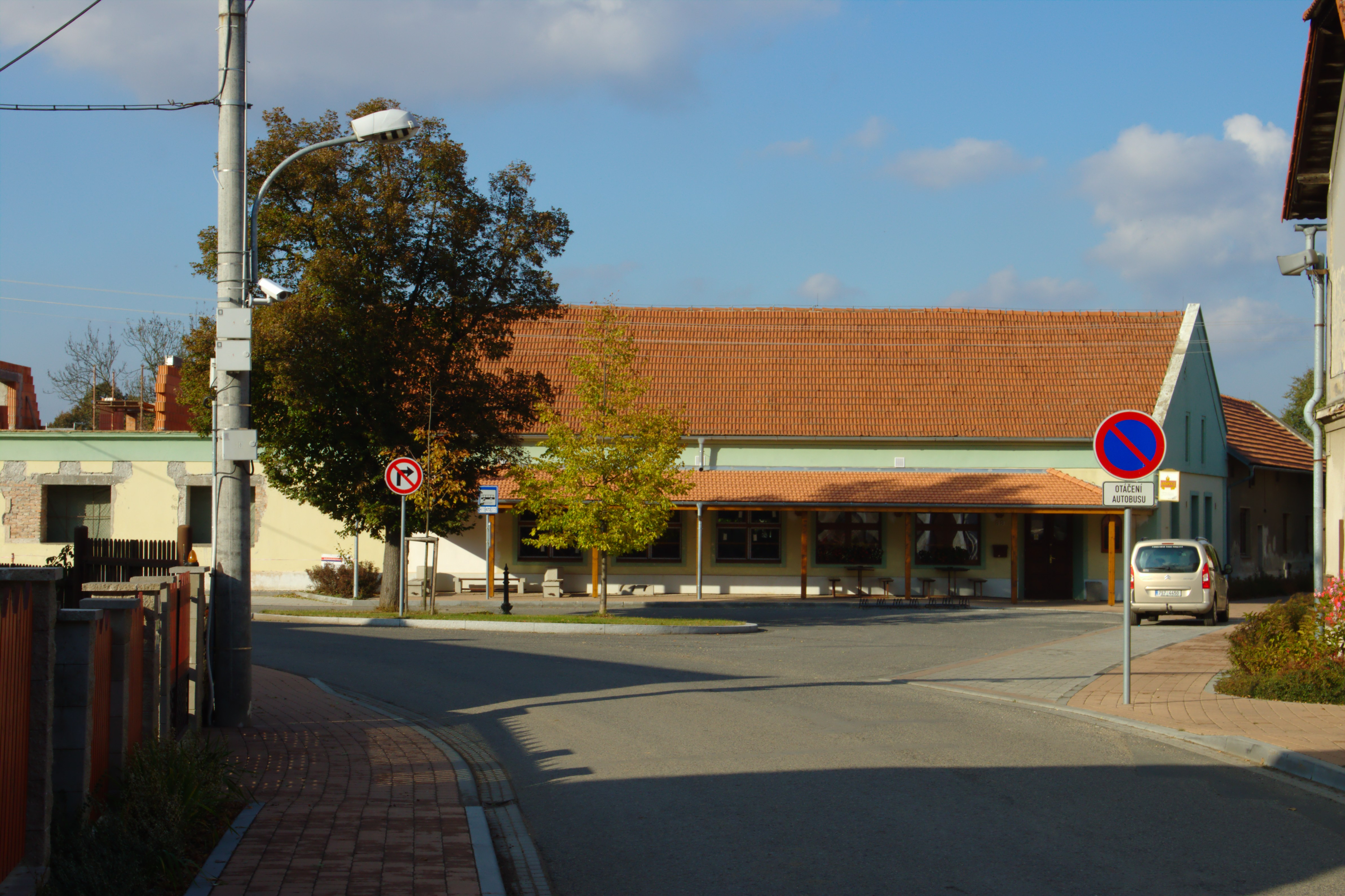 The common in Všestudy with a bus stop and a restaurant